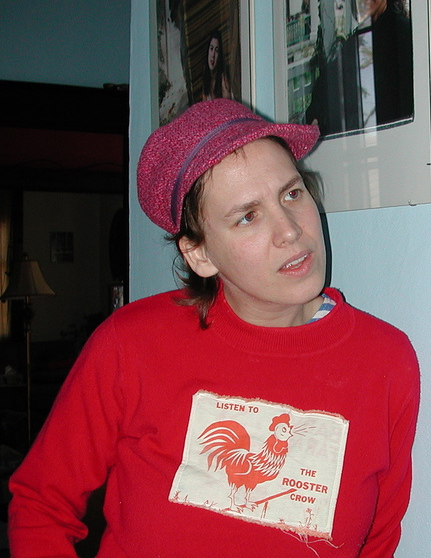 Helen Hill in New Orleans, February 2006